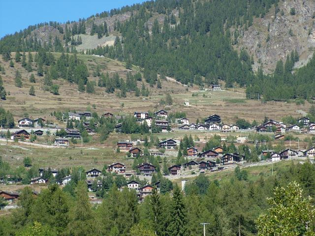 Overview of La Magdeleine (Aosta Valley, Italy)